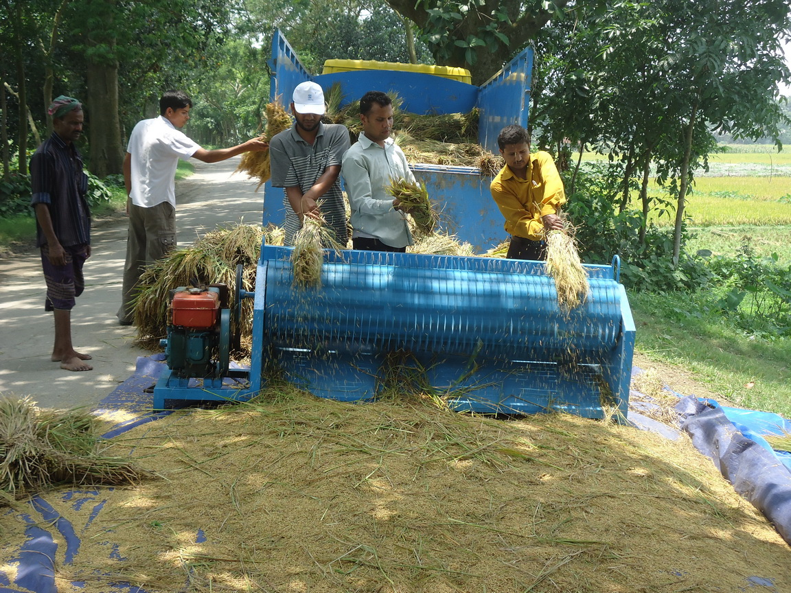 Paddy Thrasher being used in Dhamrai